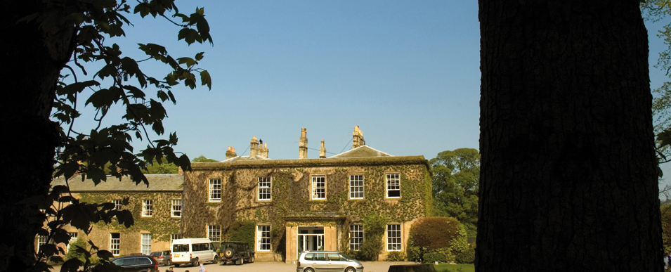 Woodleigh School, North Yorkshire.